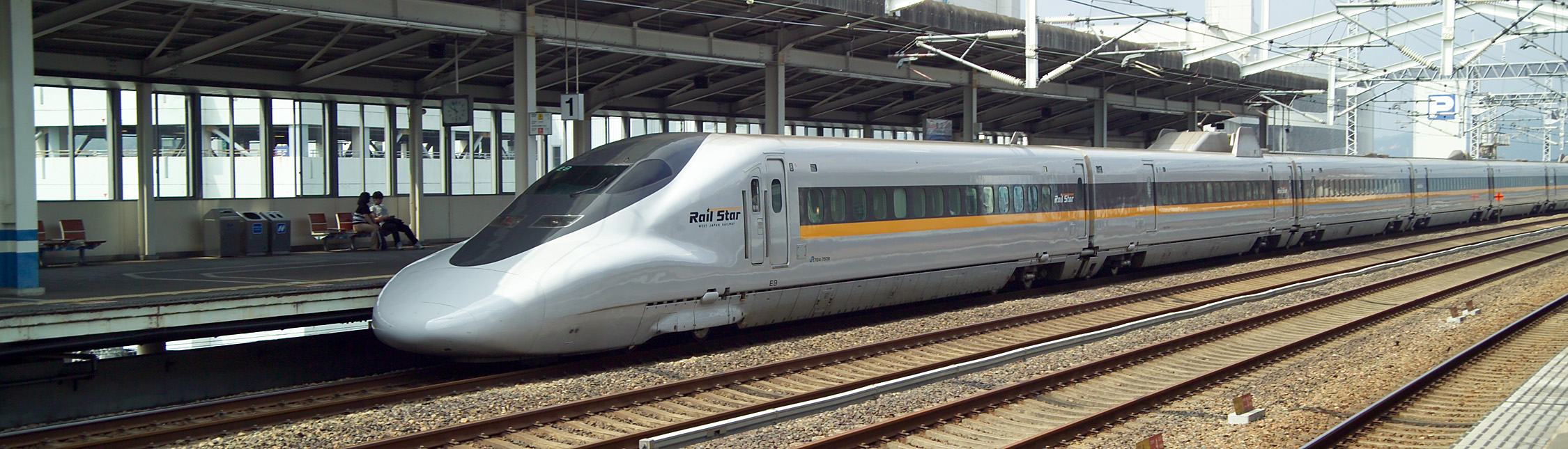 Rail Star train on Sanyo Shinkansen at Fukuyama Station, Hiroshima Prefecture, Japan. I took this photo.